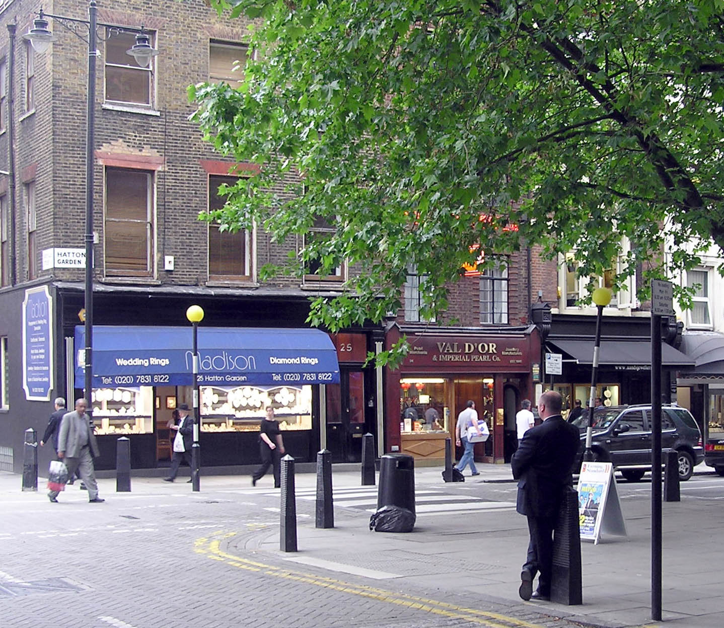 25 Hatton Garden. Cropped from image by Arpingstone.